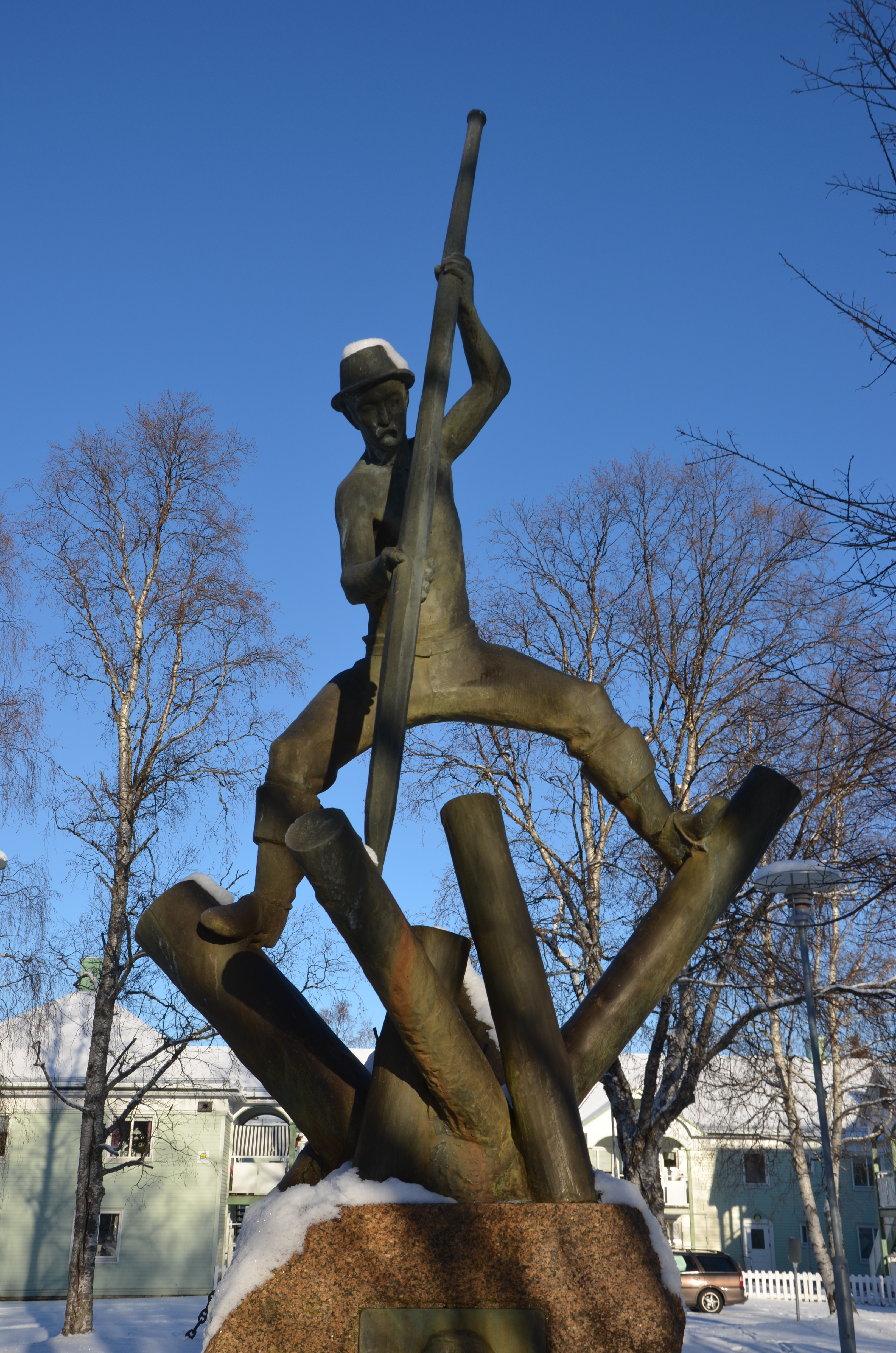 Runo Lettes Timmerflottaren i parken i Jokkmokk, brons och granit, 1954